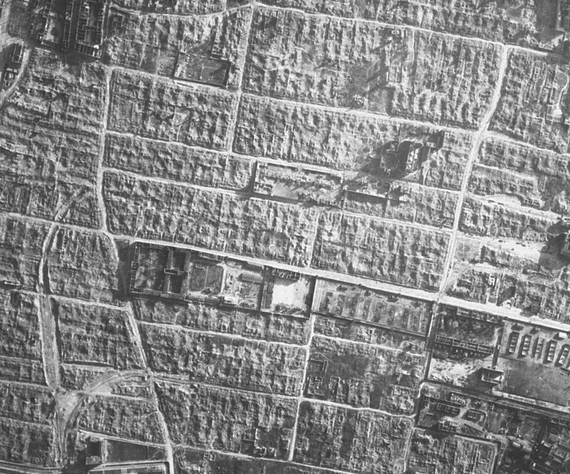 Aerial photohraph of northern Warsaw Ghetto area (north direction on the top). In the middle German Concentration Camp in Warsaw (named KL Warschau or KZ Warschau), created in 1943 - see precise localisation of KL Warschau here [1]. Warsaw, capital of Poland during german occupation (1939-1945)